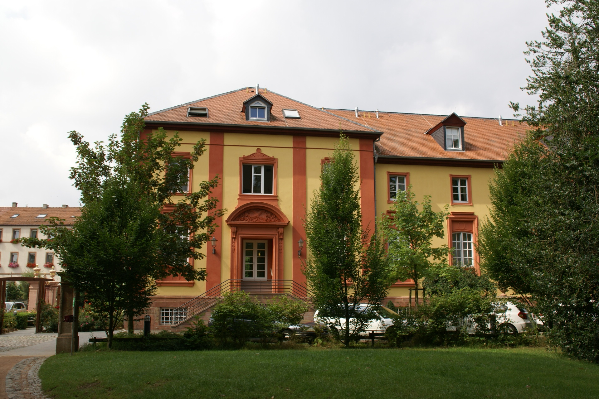 Former castle in Kirchheimbolanden, Germany